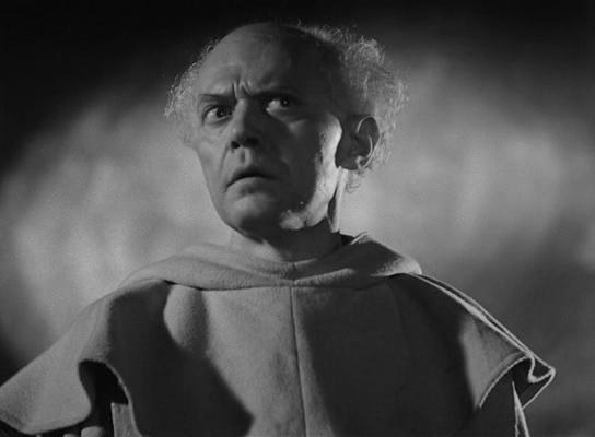 Gianfranco Giachetti in the film 1860 by Alessandro Blasetti (1934)